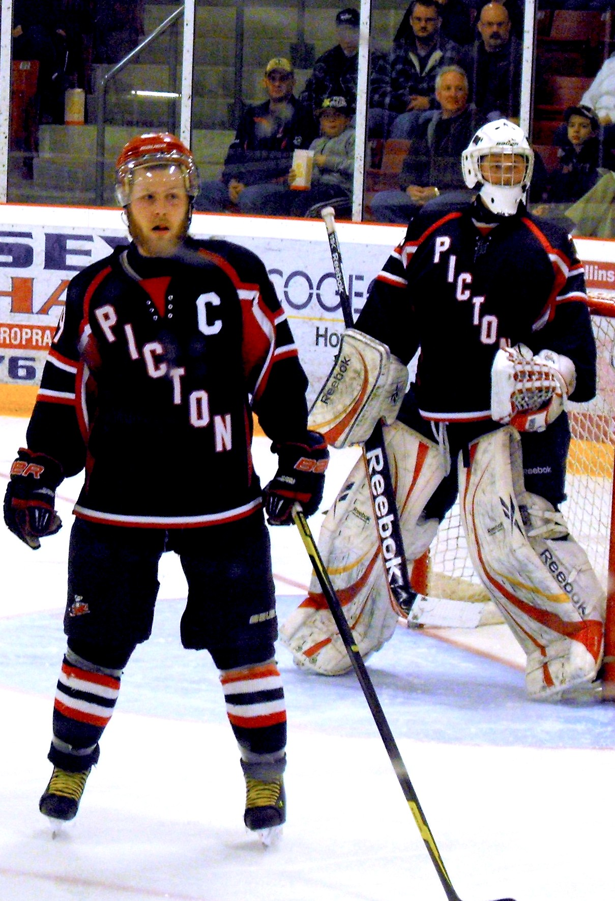 These images of OHA Jr. C action during the 2012-13 season are taken by Devan Mighton.